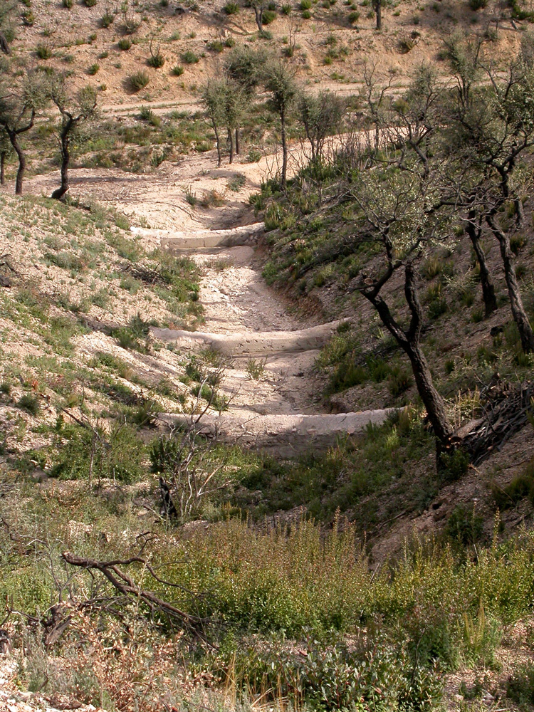 A series of ONF-designed concrete retaining walls built across a gulley in the Var department (France).